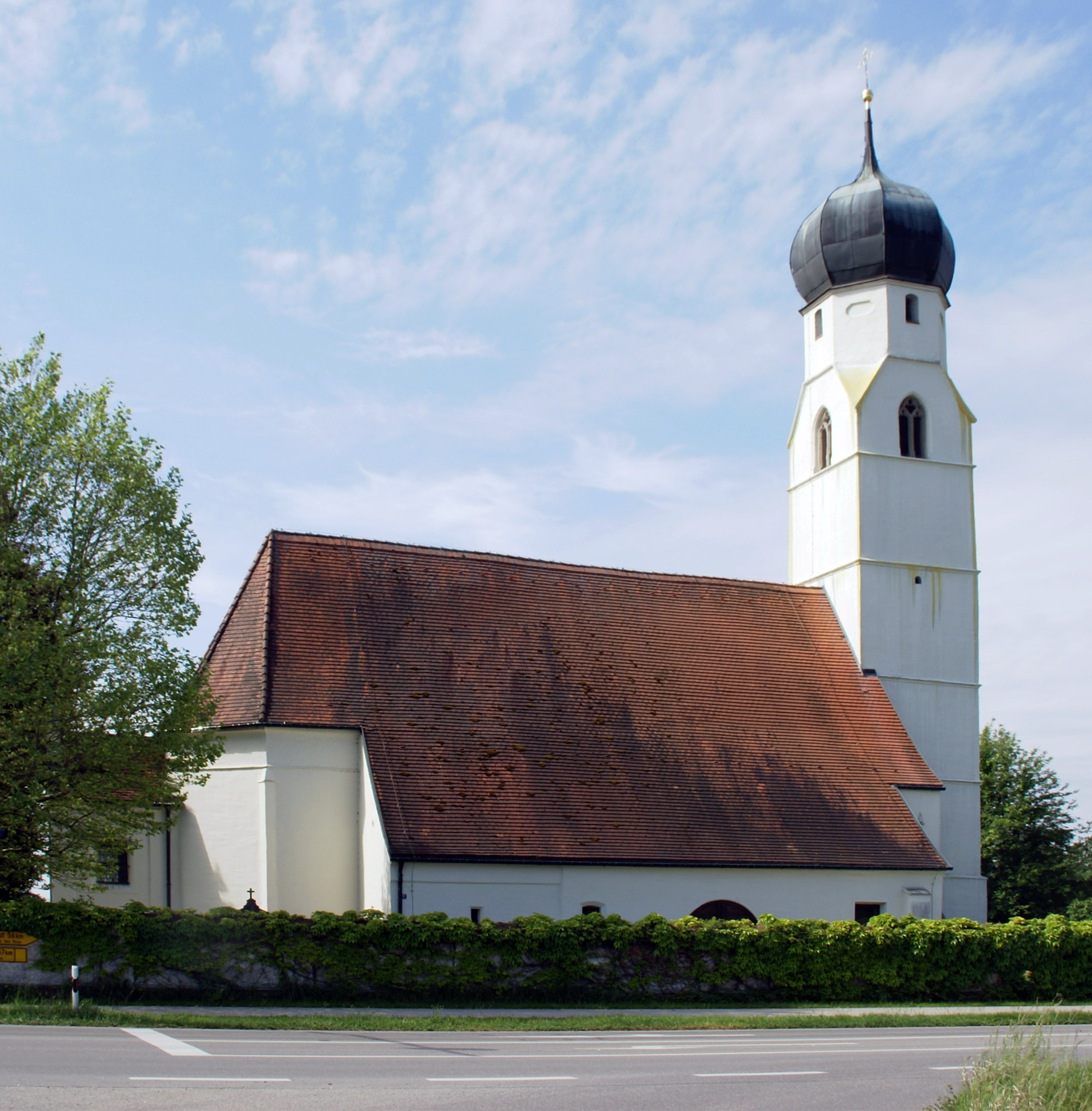 Catholic church of Maria Namen in the cemetery of Winhöring